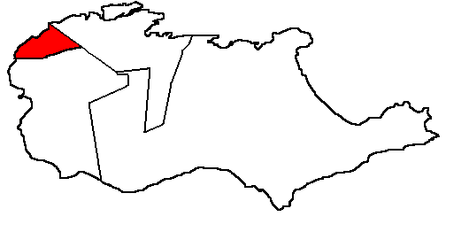 Author:Darkdragon